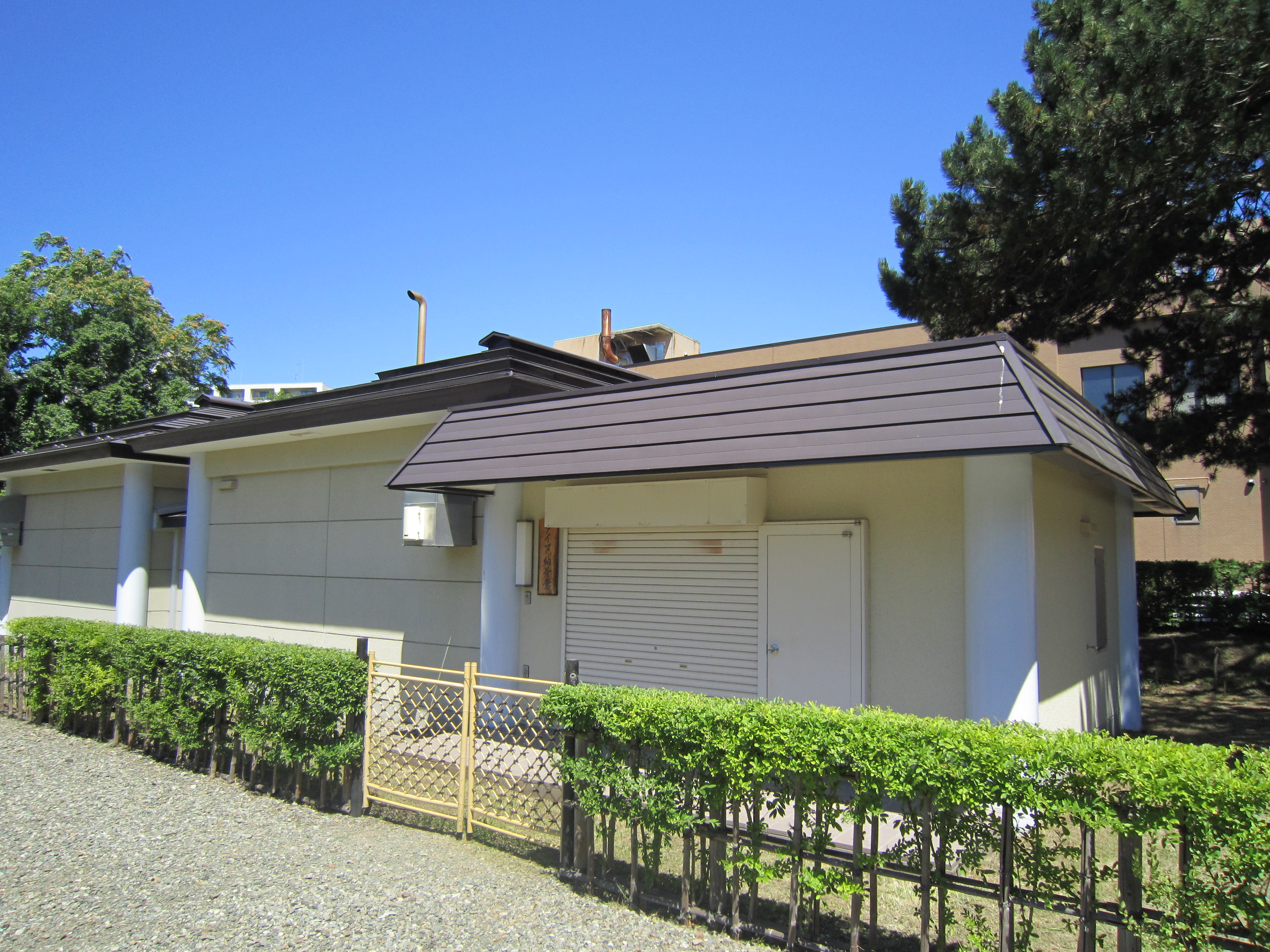 Hokkaido University Ainu Cages